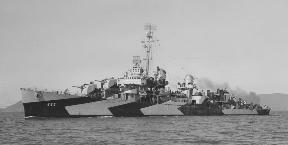 The U.S. Navy destroyer USS Stockham (DD-683) underway, circa 1944.